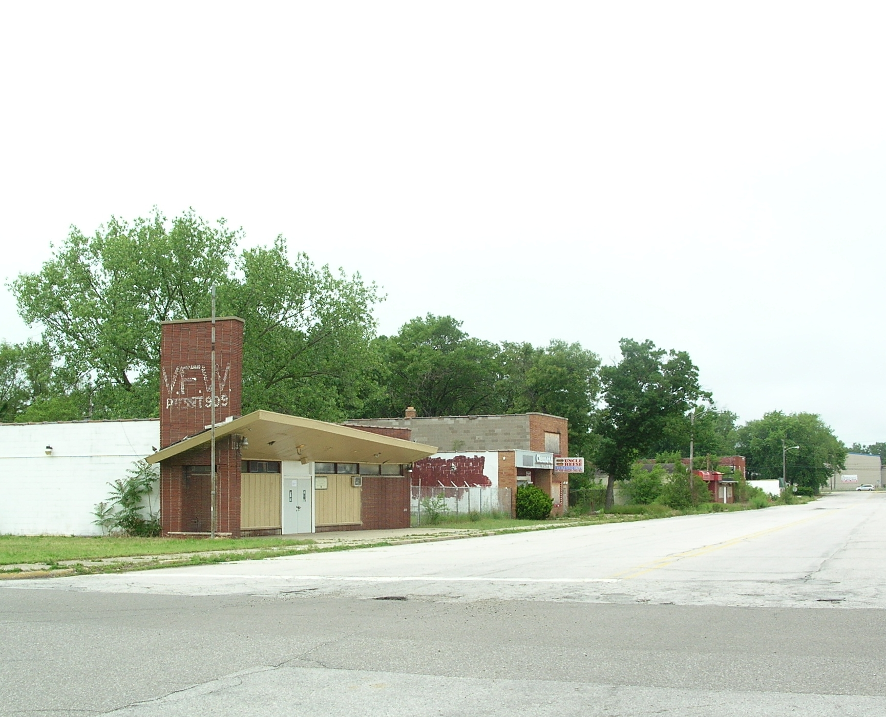 Streetscape in the old downtown of the Aetna neighborhood in Gary, Indiana.